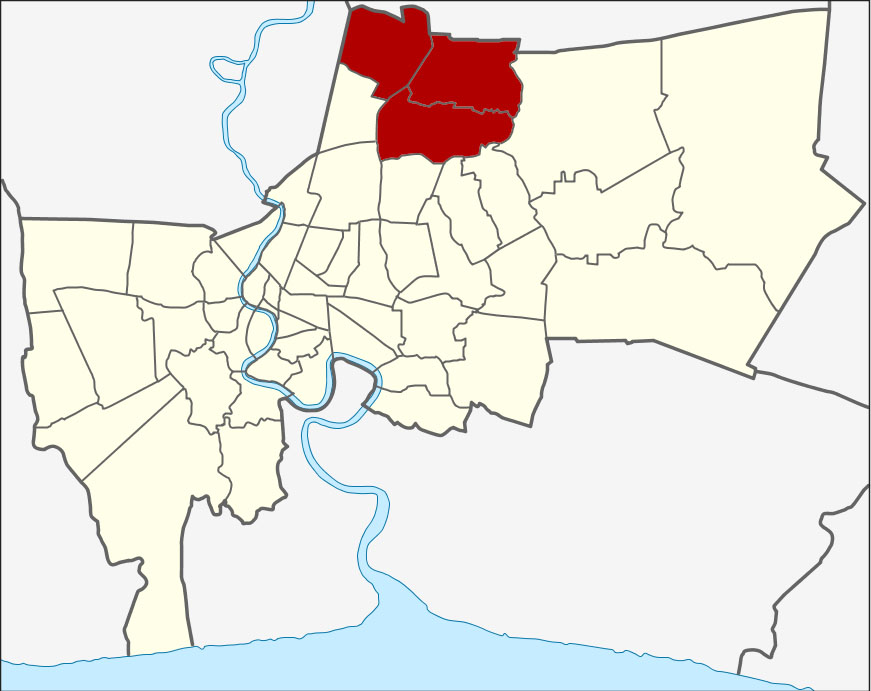 Bangkok 2007 Election Zone 5